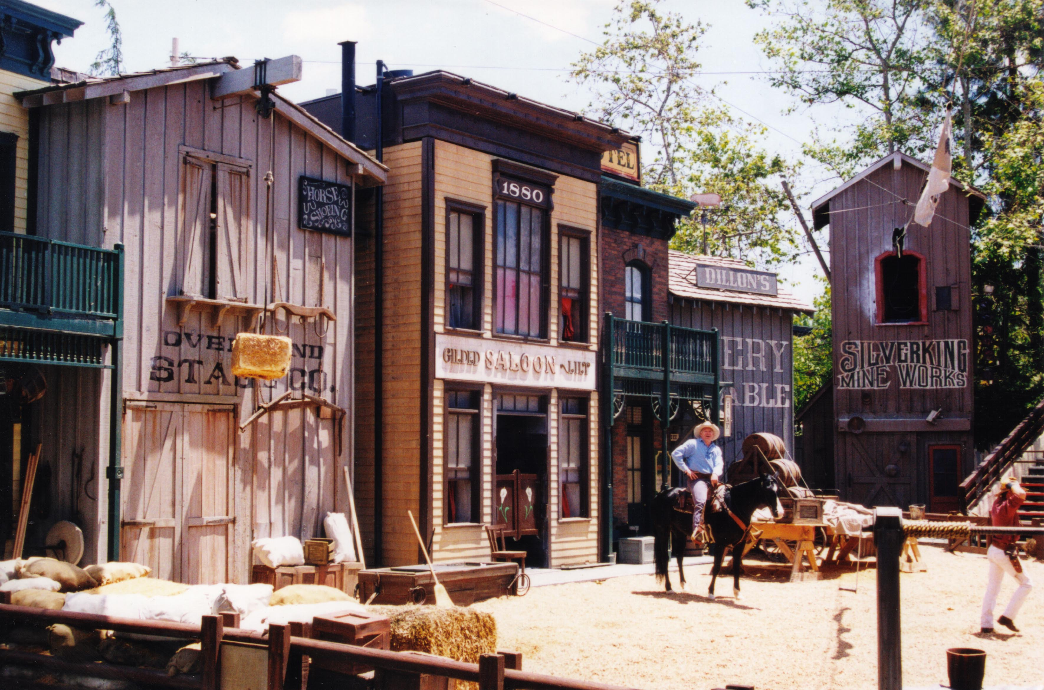 The former Wild Wild West Stunt Show at Universal Studios Hollywood.